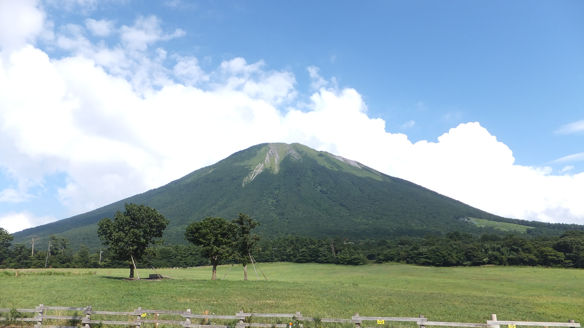 Mount Daisen seen from the WNW.